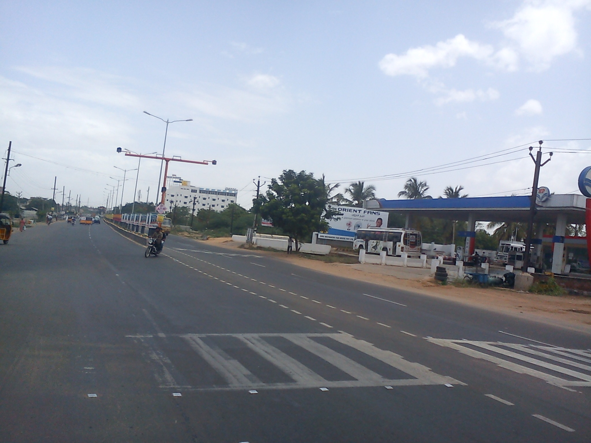 KK road connecting KK Nagar to Mattuthavani